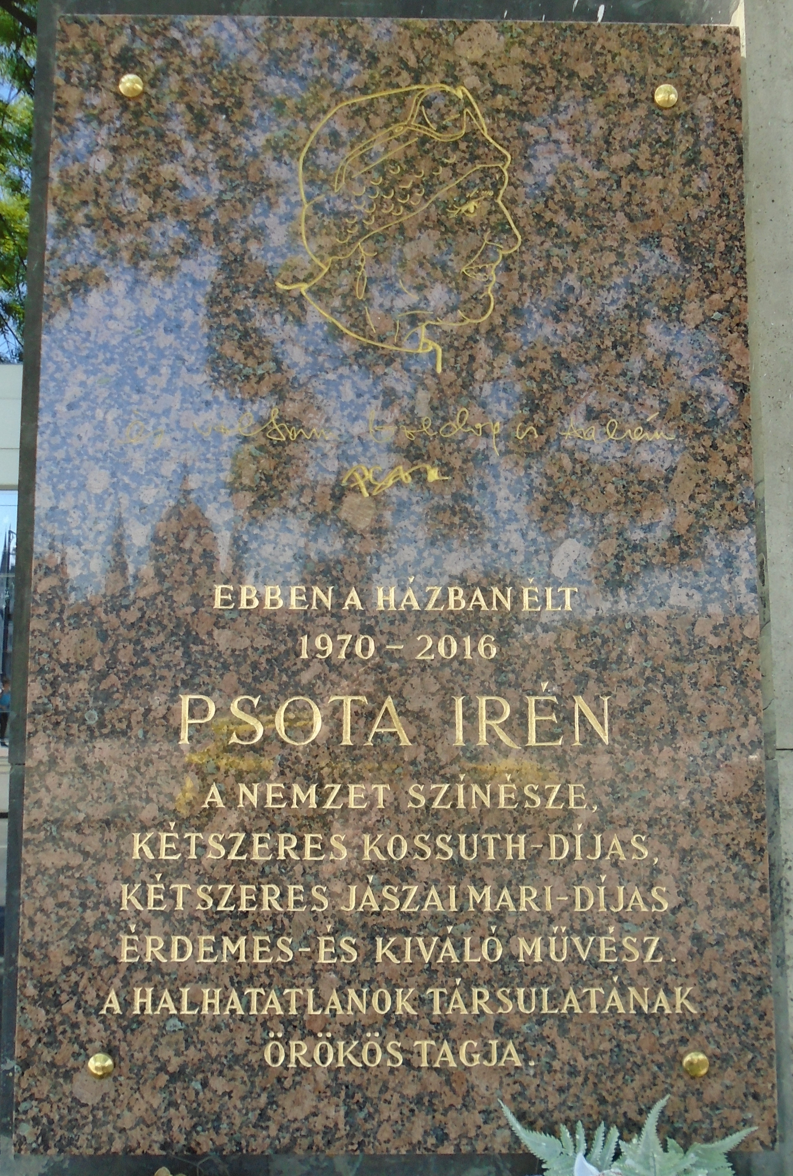 Irén Psota's commemorative plaque in Budapest District II.